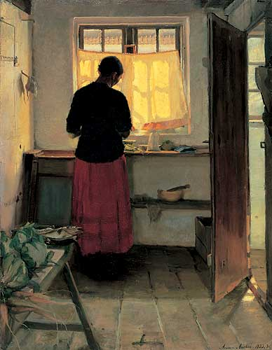 Pigen i køkkenet (Girl in the Kitchen), painting by Danish artist Anna Ancher